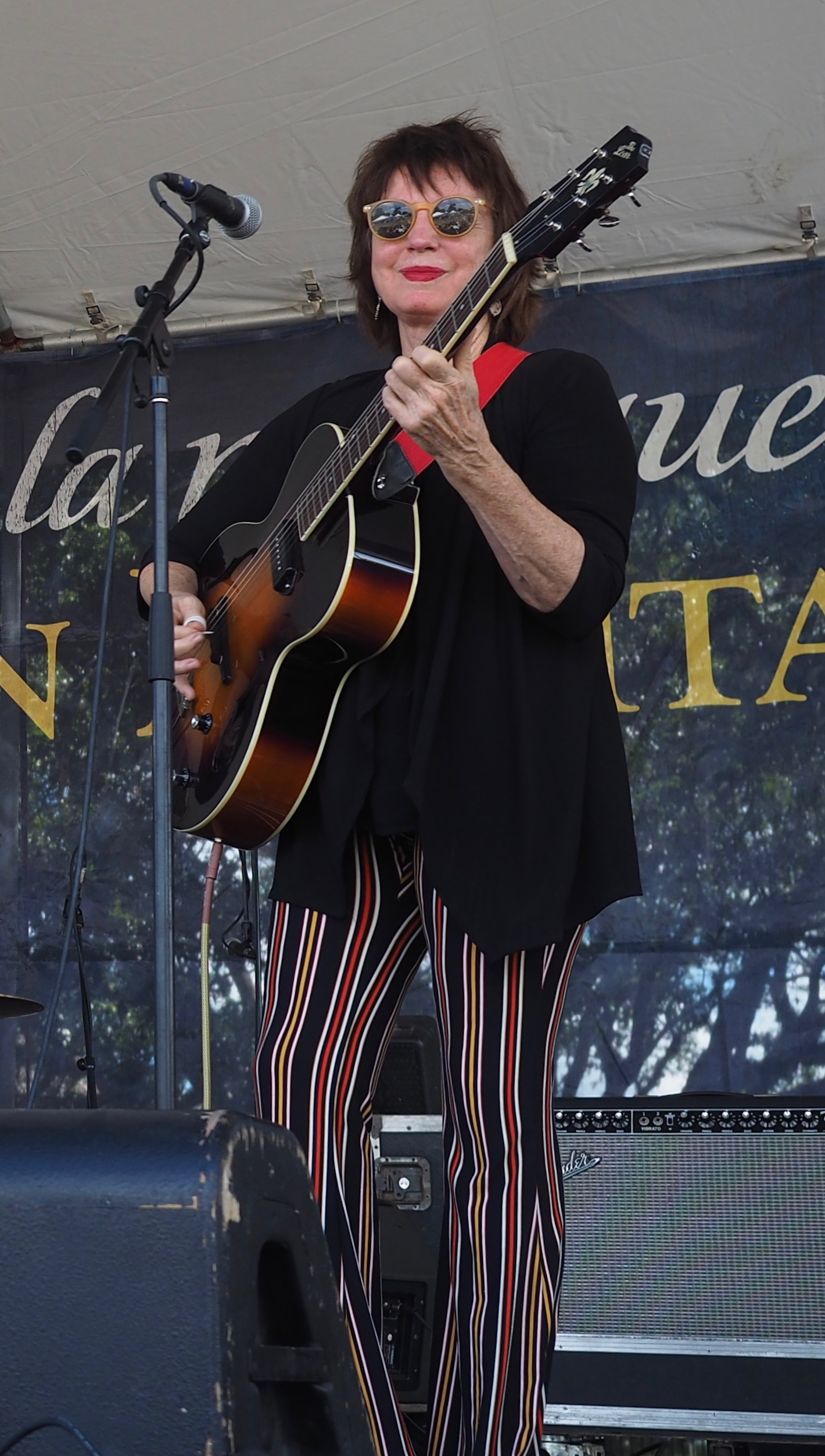 Ann Savoy performing with the Savoy Family Band at Festivals Acadiens et Creoles in Lafayette, LA on October 14, 2018.